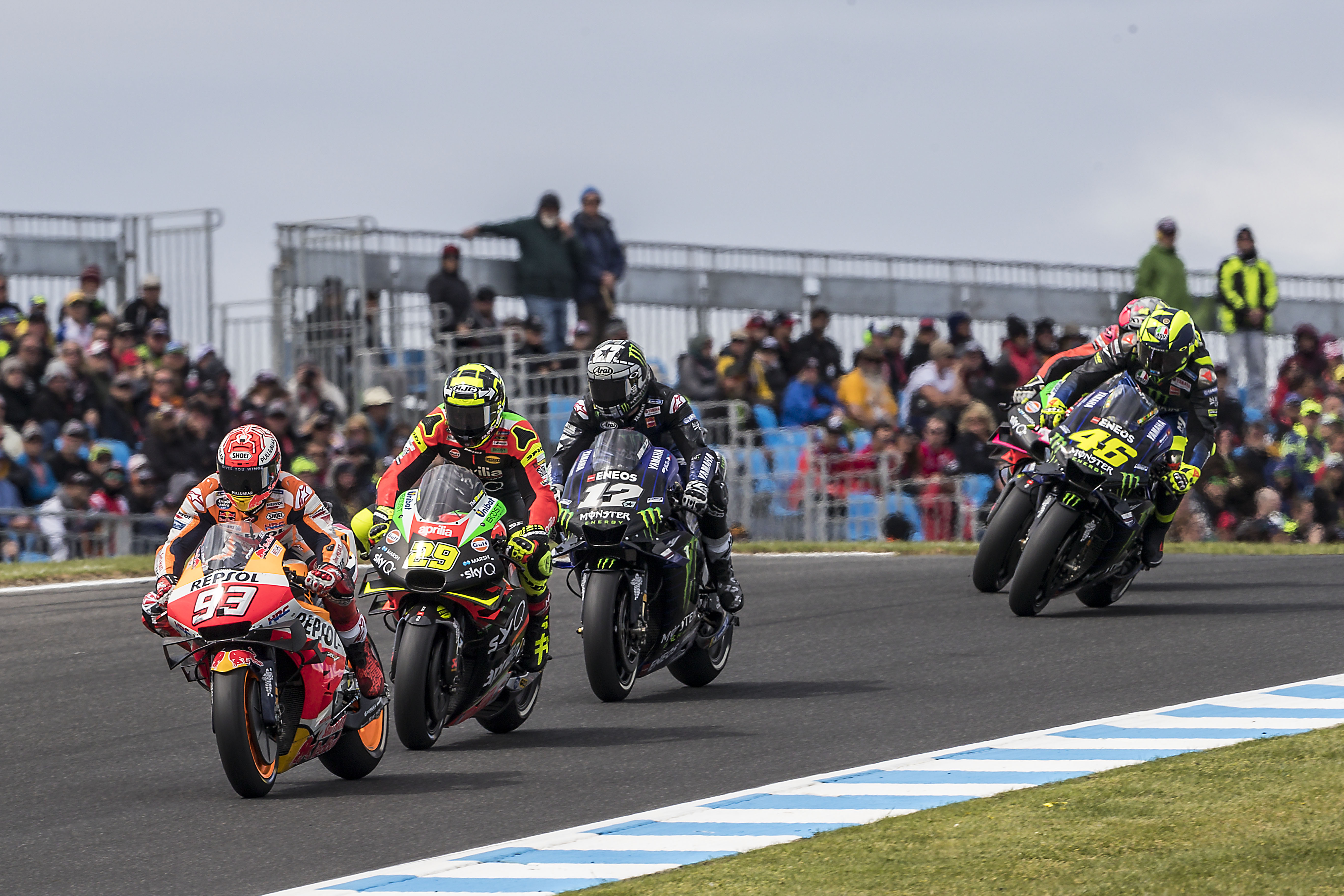 Marc Márquez, riding his Repsol Honda, leads a group of frontrunners at the 2019 Australian Grand Prix.